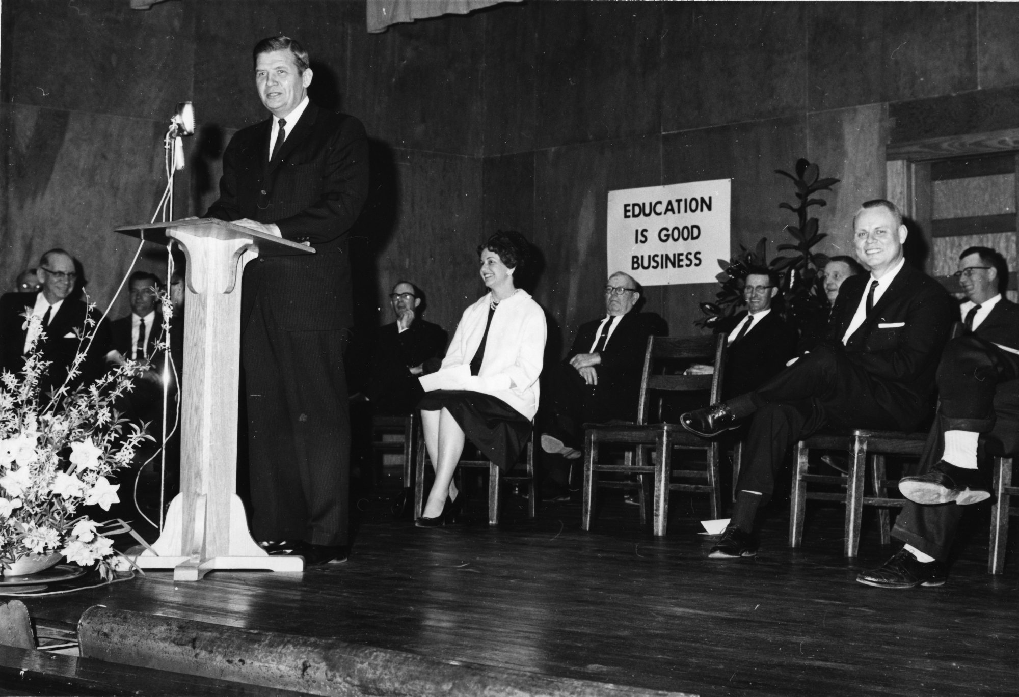 Photo by Lt. Lloyd Burchett of the North Carolina Highway Patrol. From the Raymond Stone Photograph Collection of Governor Terry Sanford's Education Tour, 1962, PhC.136, State Archives of North Carolina, Raleigh, NC.